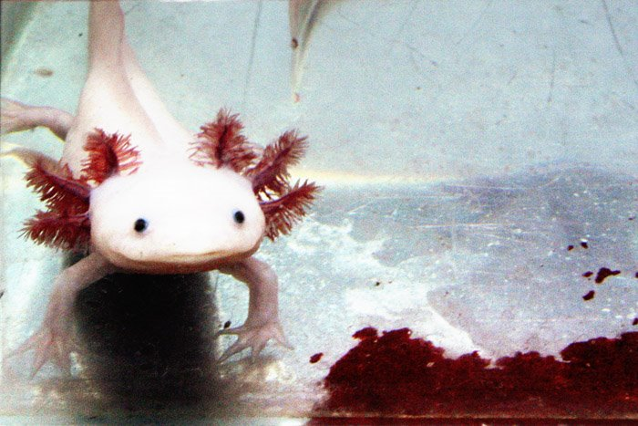 a one year old albino axolotl in my own tank